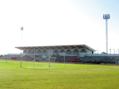 Home of Cha Choeng Sao F.C.